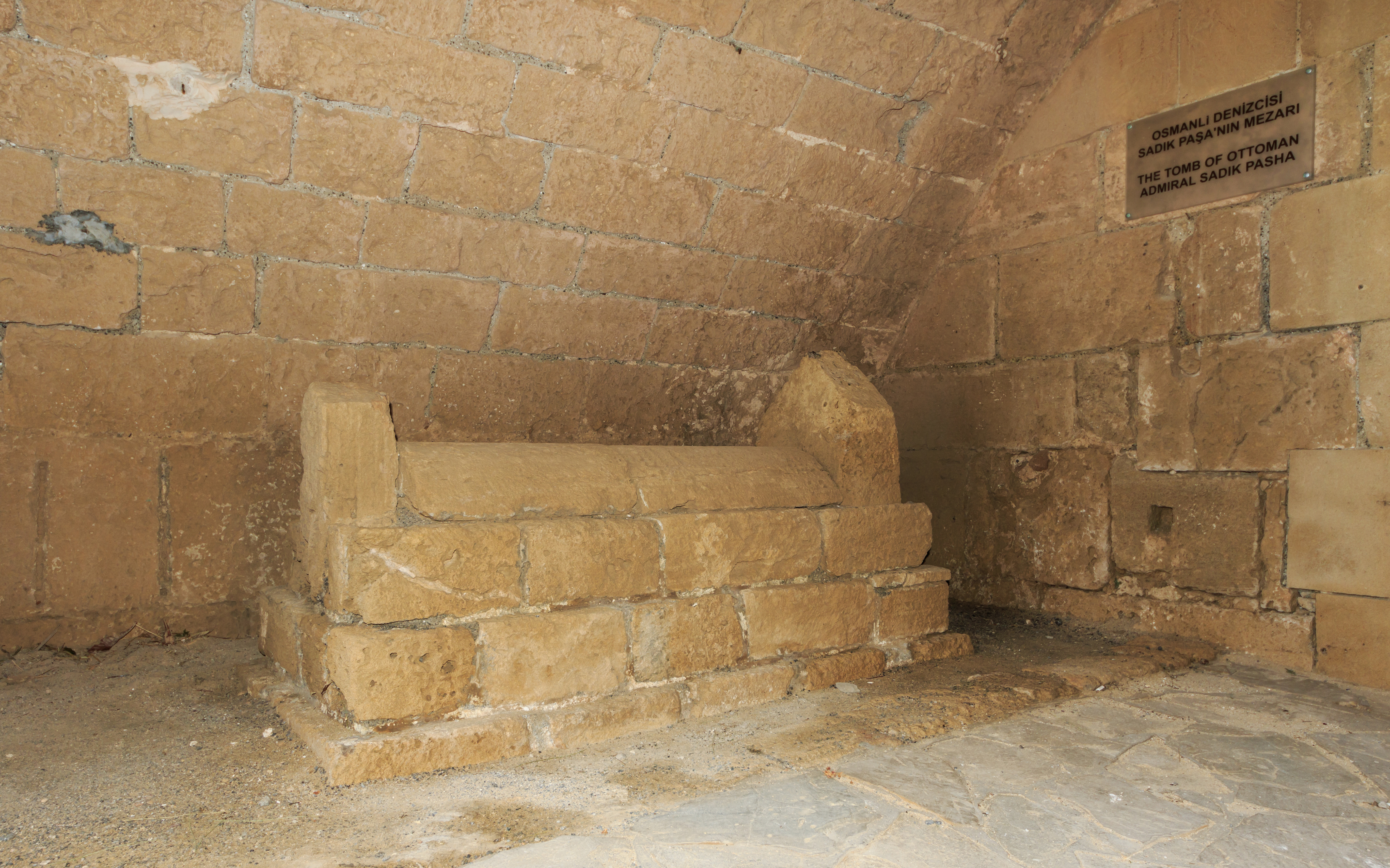 The tomb of Ottoman admiral Sadik Pasha inside the castle in Kyrenia, Cyprus